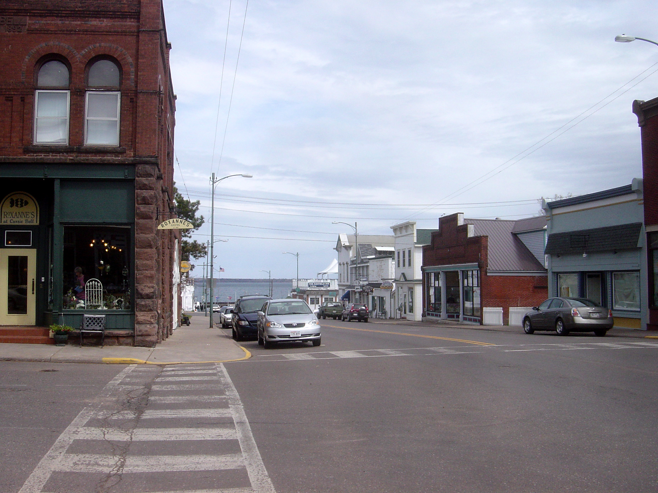 The main street (Rittenhouse Ave/Rte. 13), Bayfield, Wisconsin